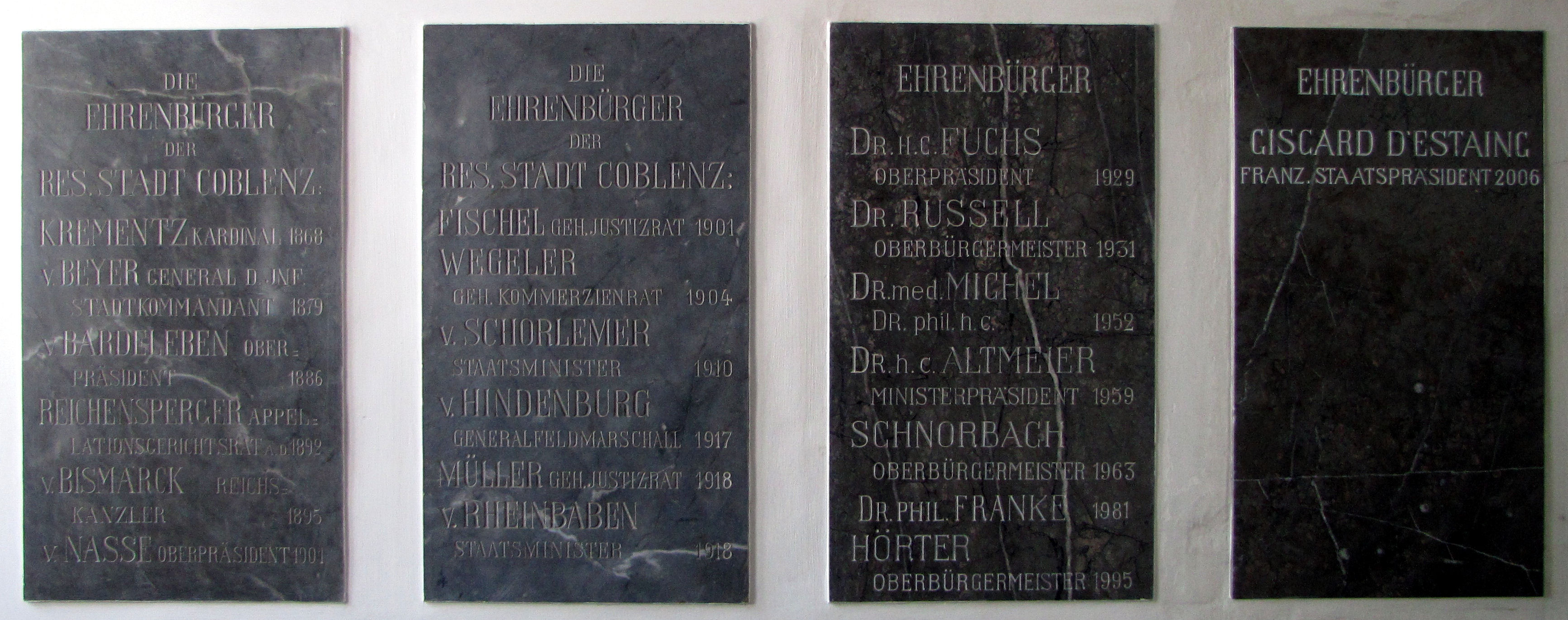 Honorary citizenship of Koblenz